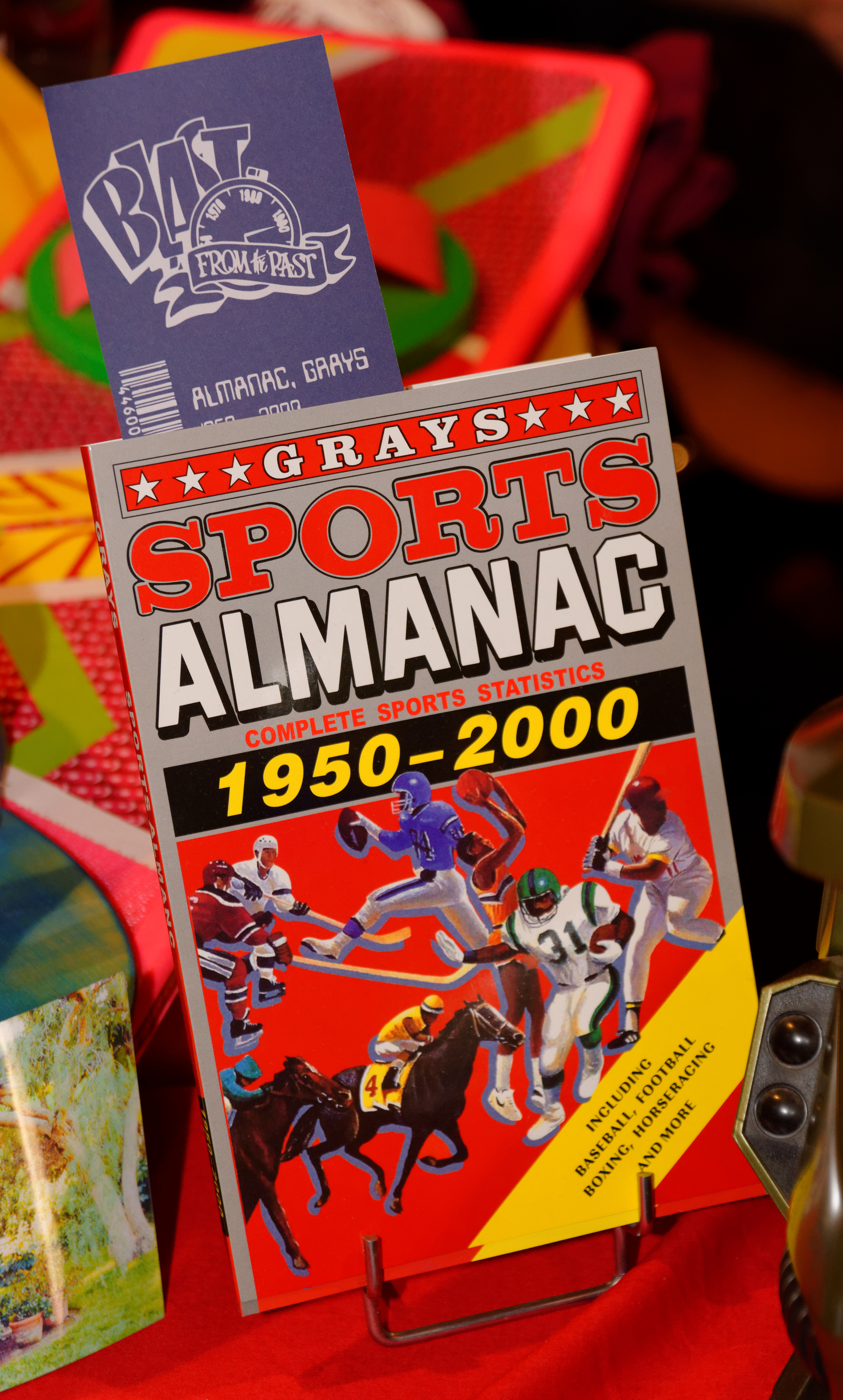 Personality rights warningAlthough this work is freely licensed or in the public domain, the person(s) shown may have rights that legally restrict certain re-uses unless those depicted consent to such uses. In these cases, a model release or other evidence of consent could protect you from infringement claims.